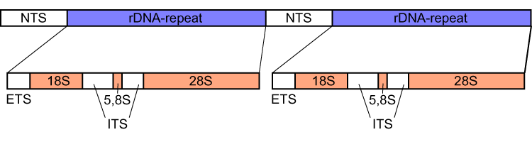 author: Norbert Holstein source: self-made